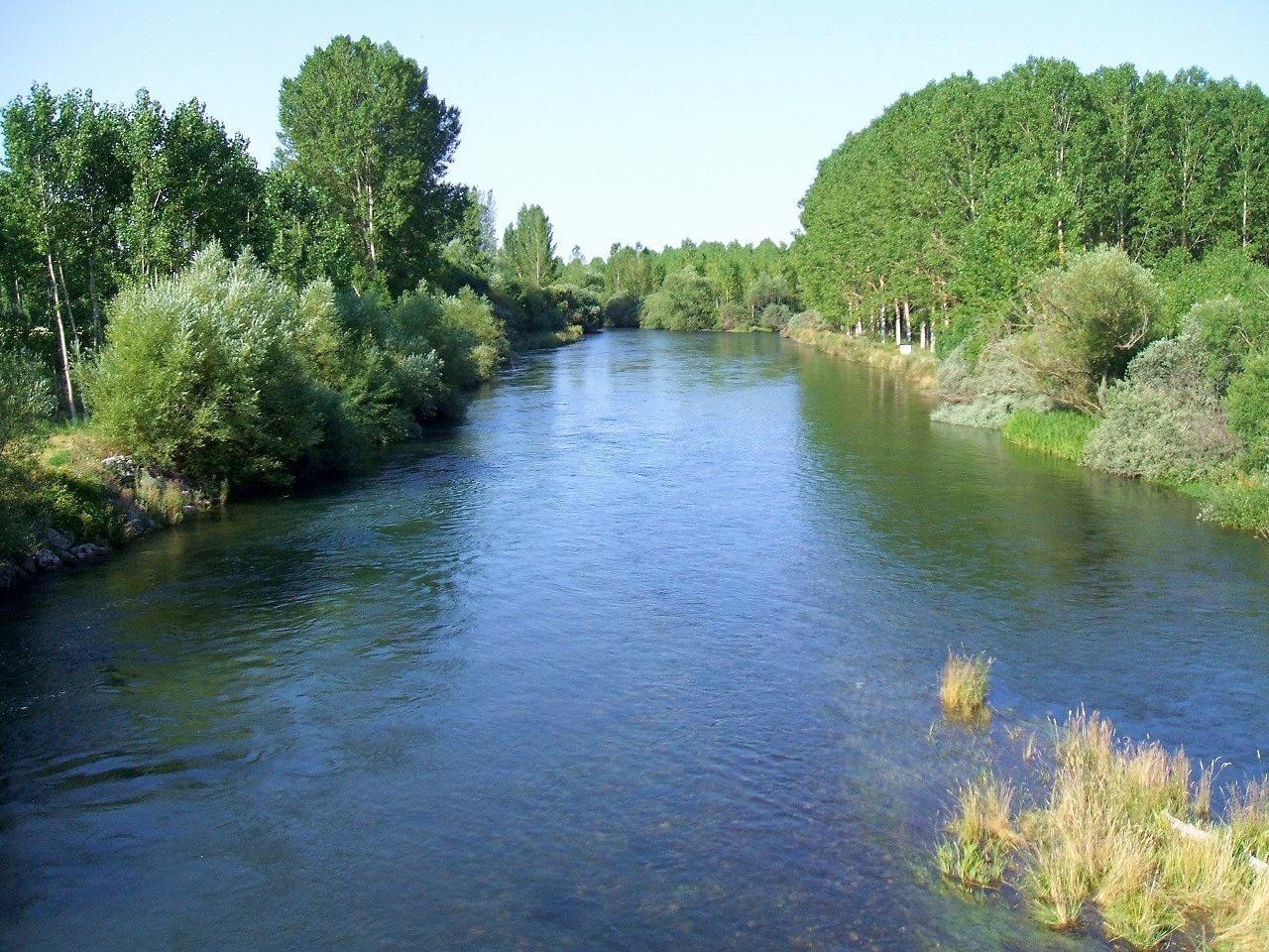 Río Esla, a su paso por Gradefes (provincia de León, España).